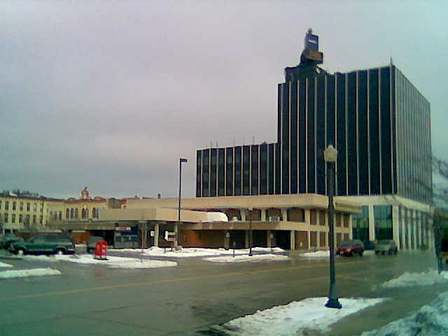 Cellphone camera picture of downtown Sheboygan, Wisconsin, looking at N 8th Street and the US Bank building.